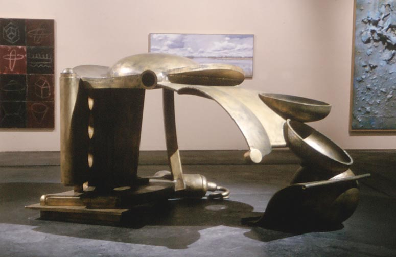 "Spanish Castle," a sculpture by Ryan McCourt, as seen in the Edmonton Contemporary Artists' Society's 9th Annual Painting and Sculpture Exhibition in 2001